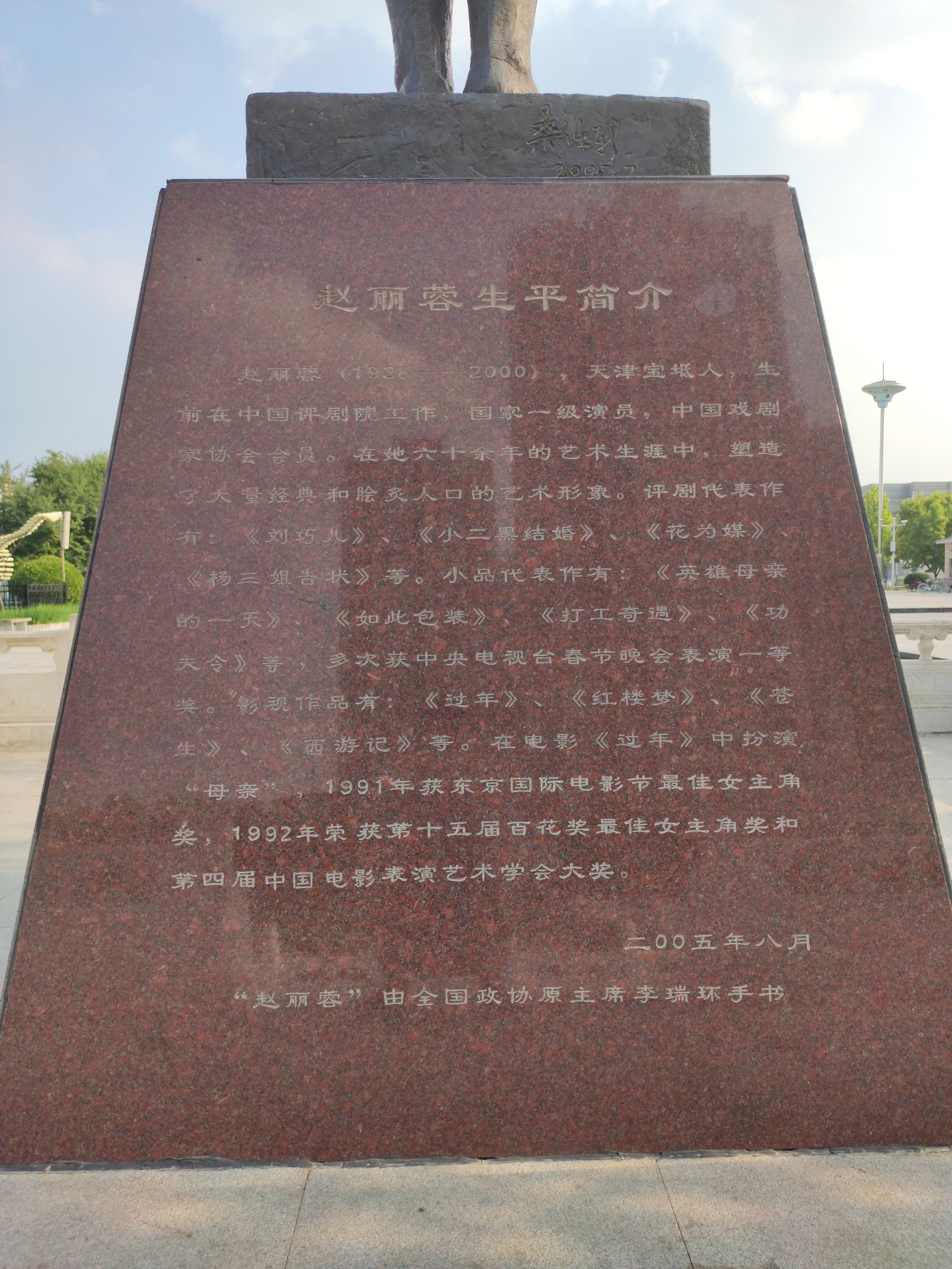 Photo：The inscription of Bronze sculpture of Zhao Lirong By Li Ruihuan